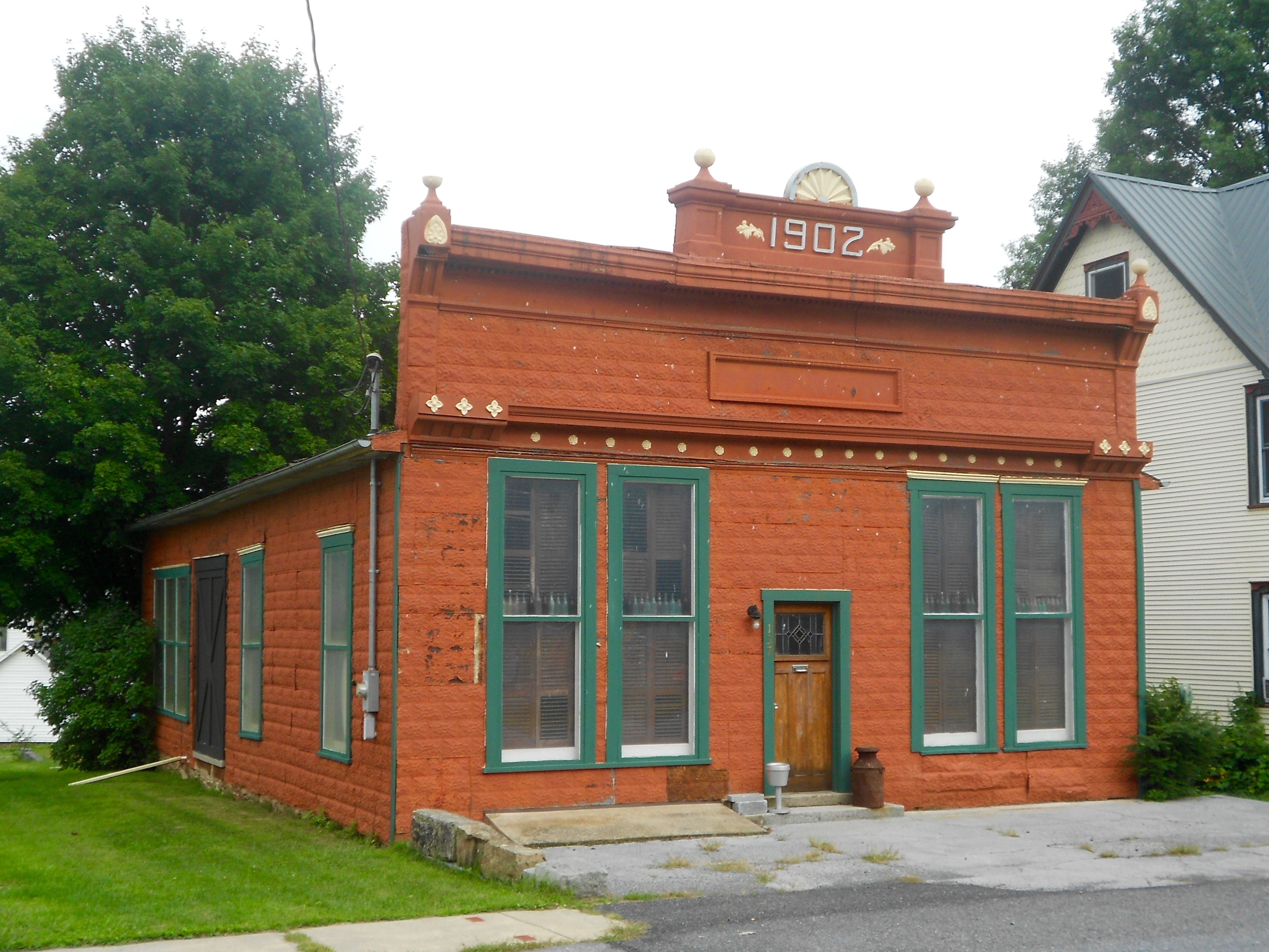 A municipal building in the borough of Howard, Pennsylvania with a 1902 datestone. Double doors on the left side suggest that this was used for storage or maybe as a stable. Across from the (former?) borough hall and the borough park